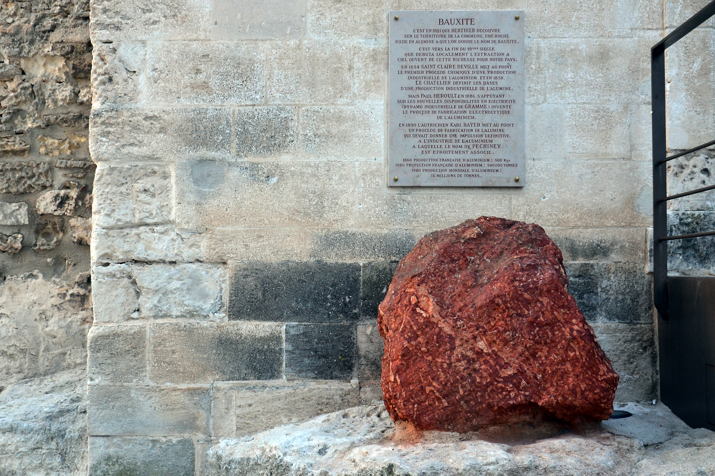 Bauxite, Les Baux-de-Provence